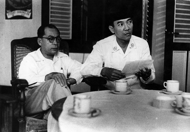 Soekarno and Mohammad Hatta during the National Revolution.